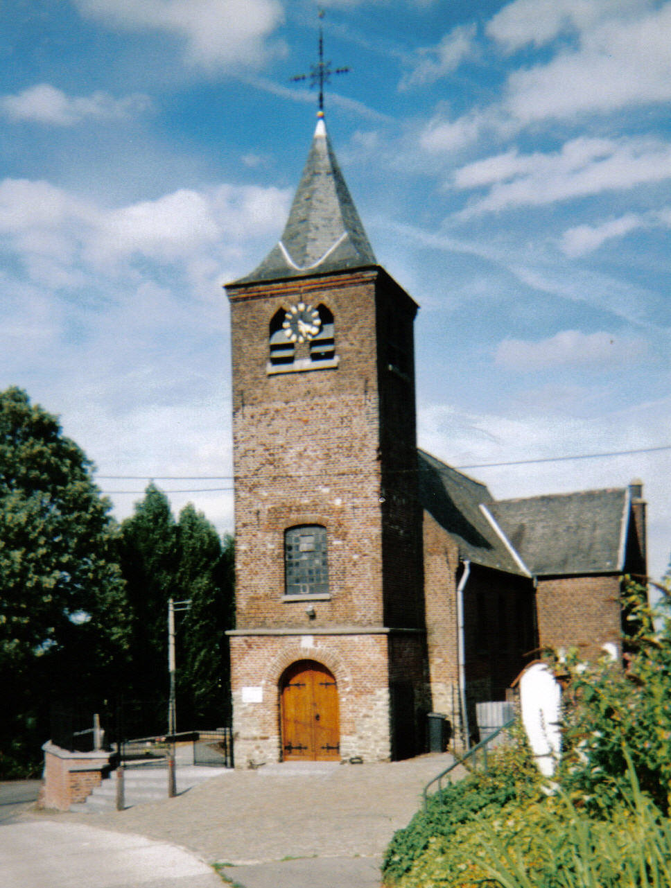 The village church of Kerkem. The hamlet of Kerkem, together with Maarke, constitutes the village of Maarke-Kerkem, which is a submunicipality of Maarkedal, Belgium. The above church is St. Peter's.